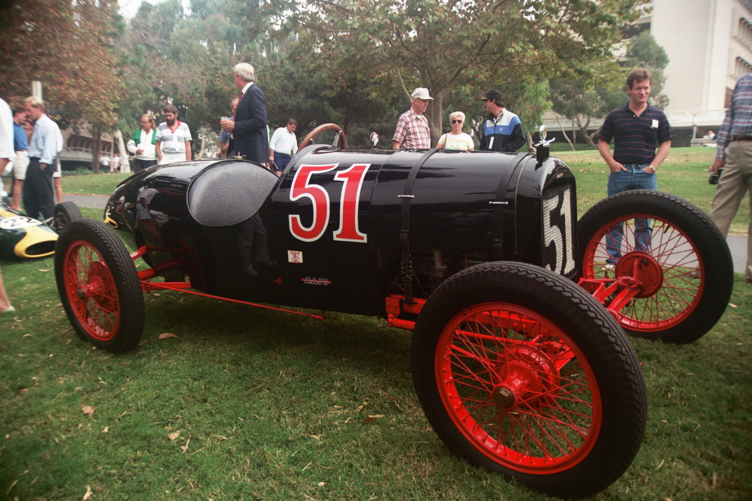 A Ford Model T equiped with Rajo Motor and Manufacturing cylinder heads